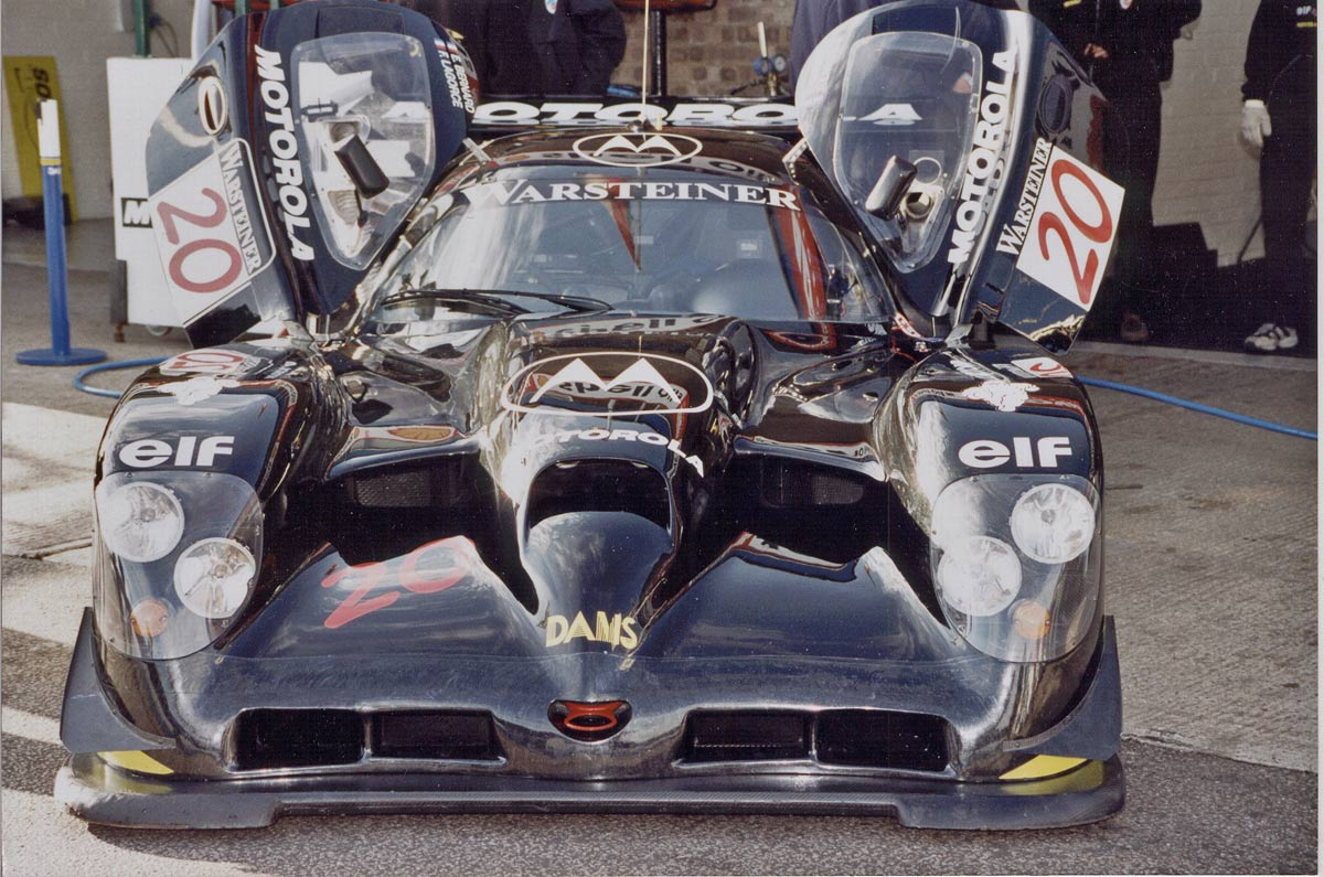 Dams Panos of Franck Lagorce and Éric Bernard in Donigton 1997